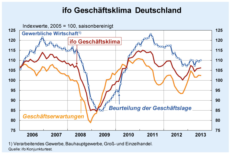 ifo Business Survey